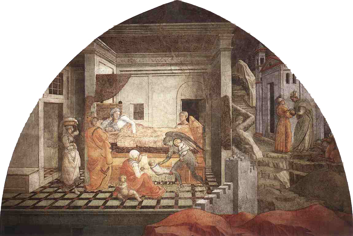 View of the fresco cycle in Prato Cathedral, Italy - St Stephen is Born and Replaced by Another Child